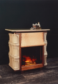 Electric fireplace